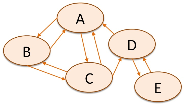 The figure shows the relationships between sites. The idea was taken from paper Задача дележа затрат на создание веб-коммуникатора как кооперативная игра written by В.В. Мазалов, А.А Печников, А.В. Чирков, Ю.В. Чуйко URL